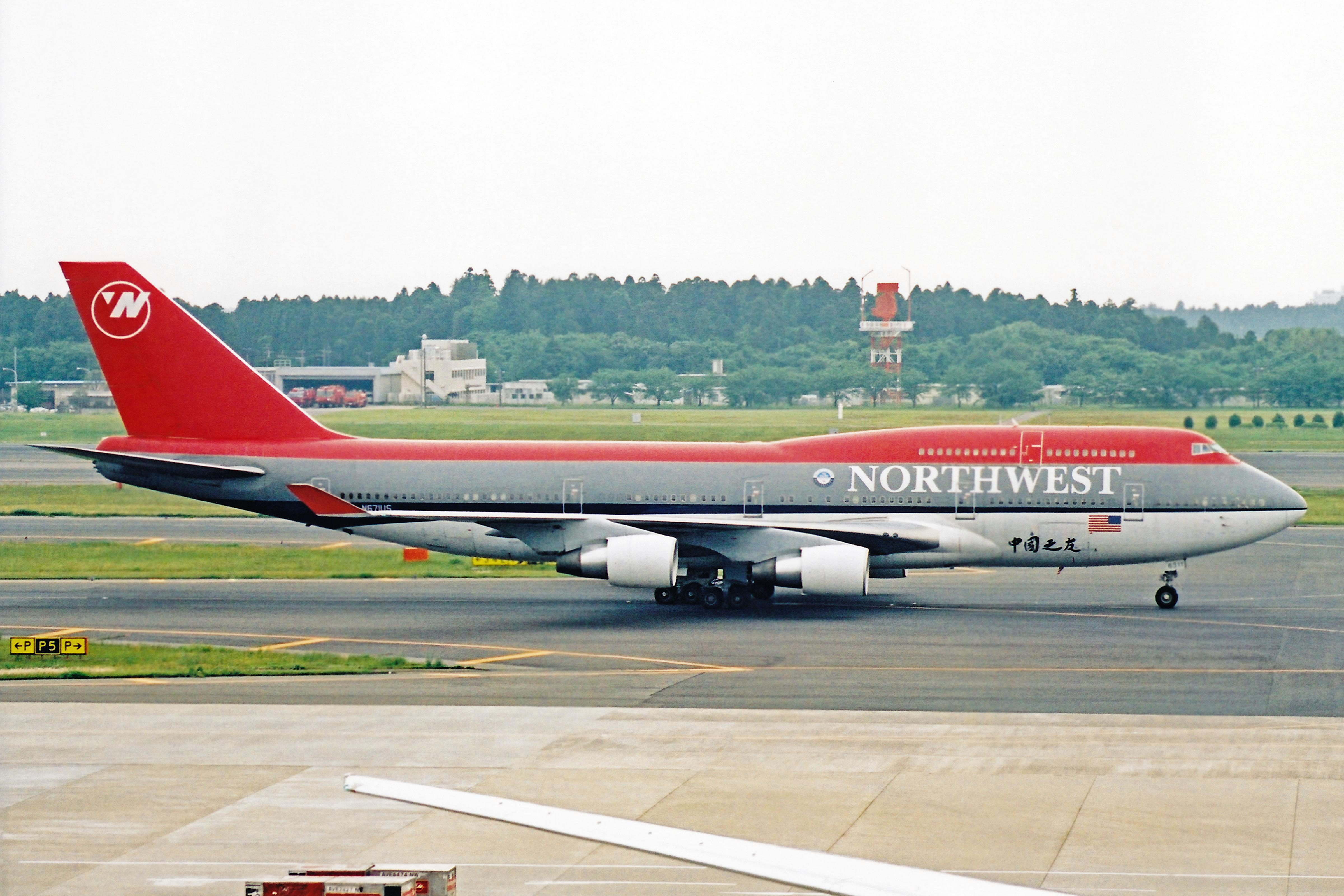 N671US was named 'City of Detroit'. At this time the fuselage featured 'City of Detroit' on port side, and 'Friend of China' (中國之友 Zhōng​guó zhī yǒu​) on starboard side.